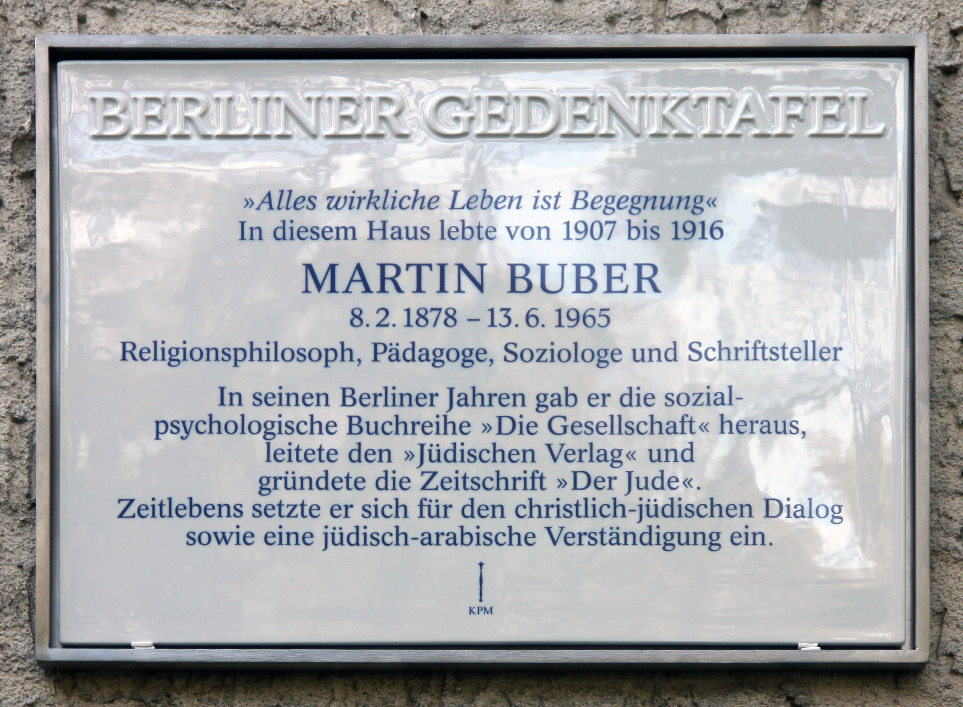 Berlin memorial plaque, Martin Buber, Vopeliuspfad 12, Berlin-Zehlendorf, Germany